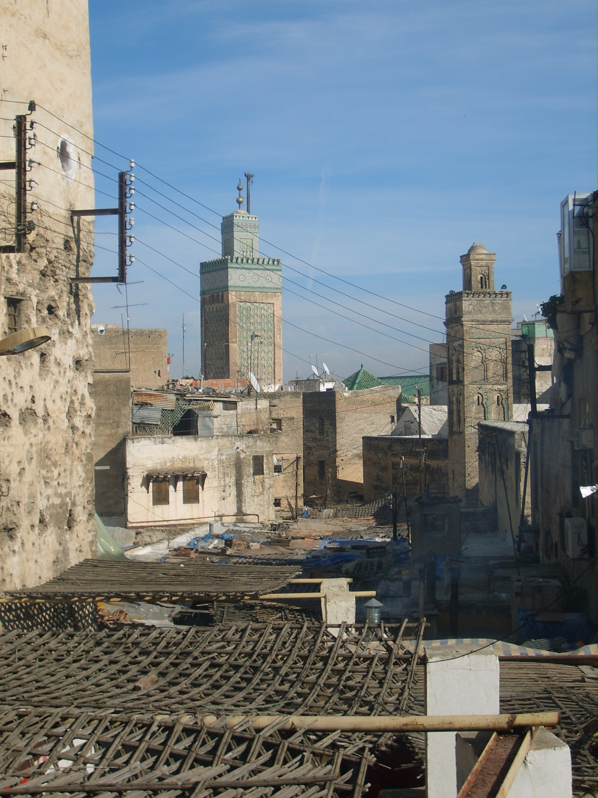 view of the Old Medina from the second floor of a restaurant